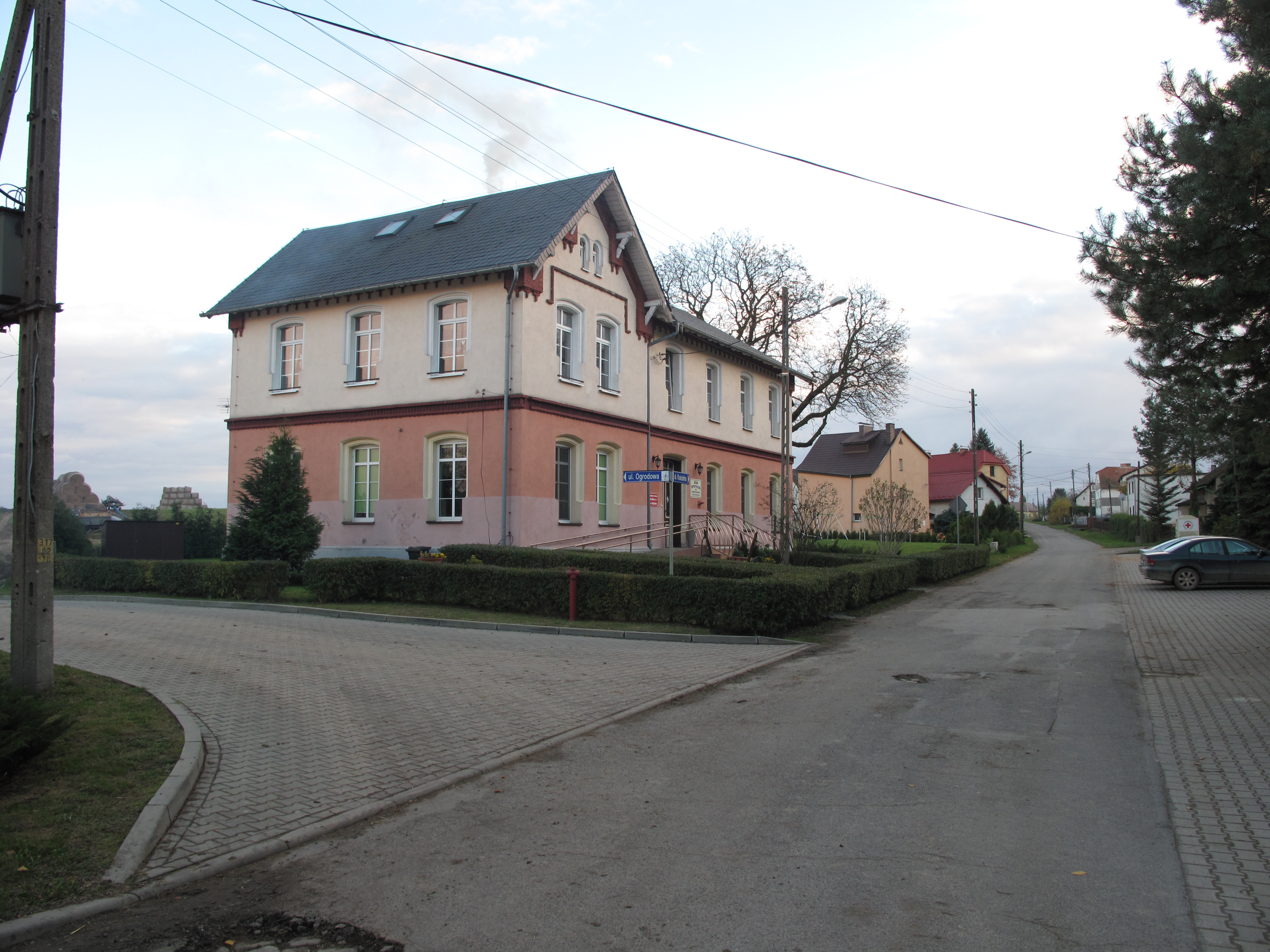 Grzędzin. Kędzierzyn-Koźle County, Poland.